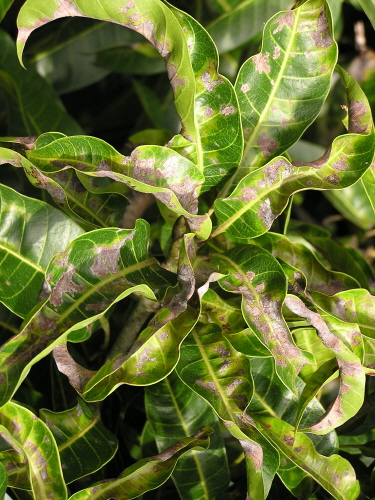 A photograph of mango leaves being curled, caused by an infection of Oidium mangiferae.